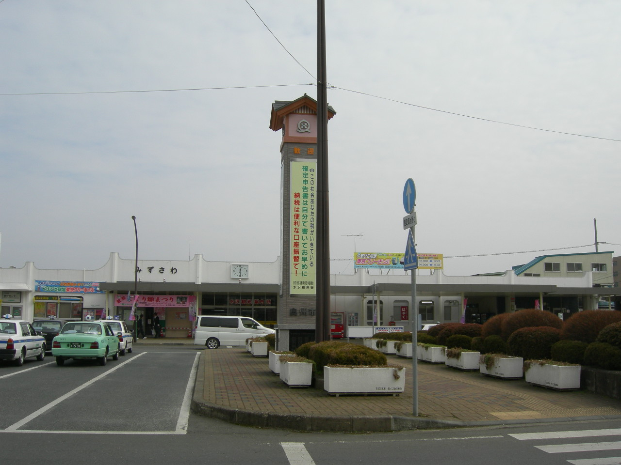 Mizusawa railway station on Tōhoku Main Line, in Ōshū City, Iwate Prefecture, Japan.